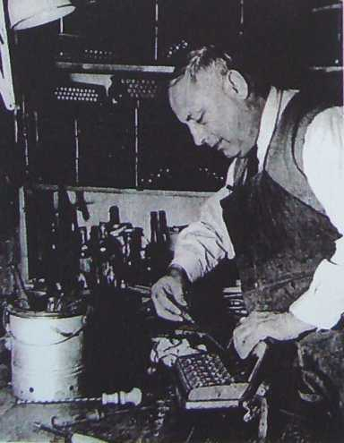 Mr. Josef Fleiß in his Work shop (* 1906; † Juli 1978) Accordion builder